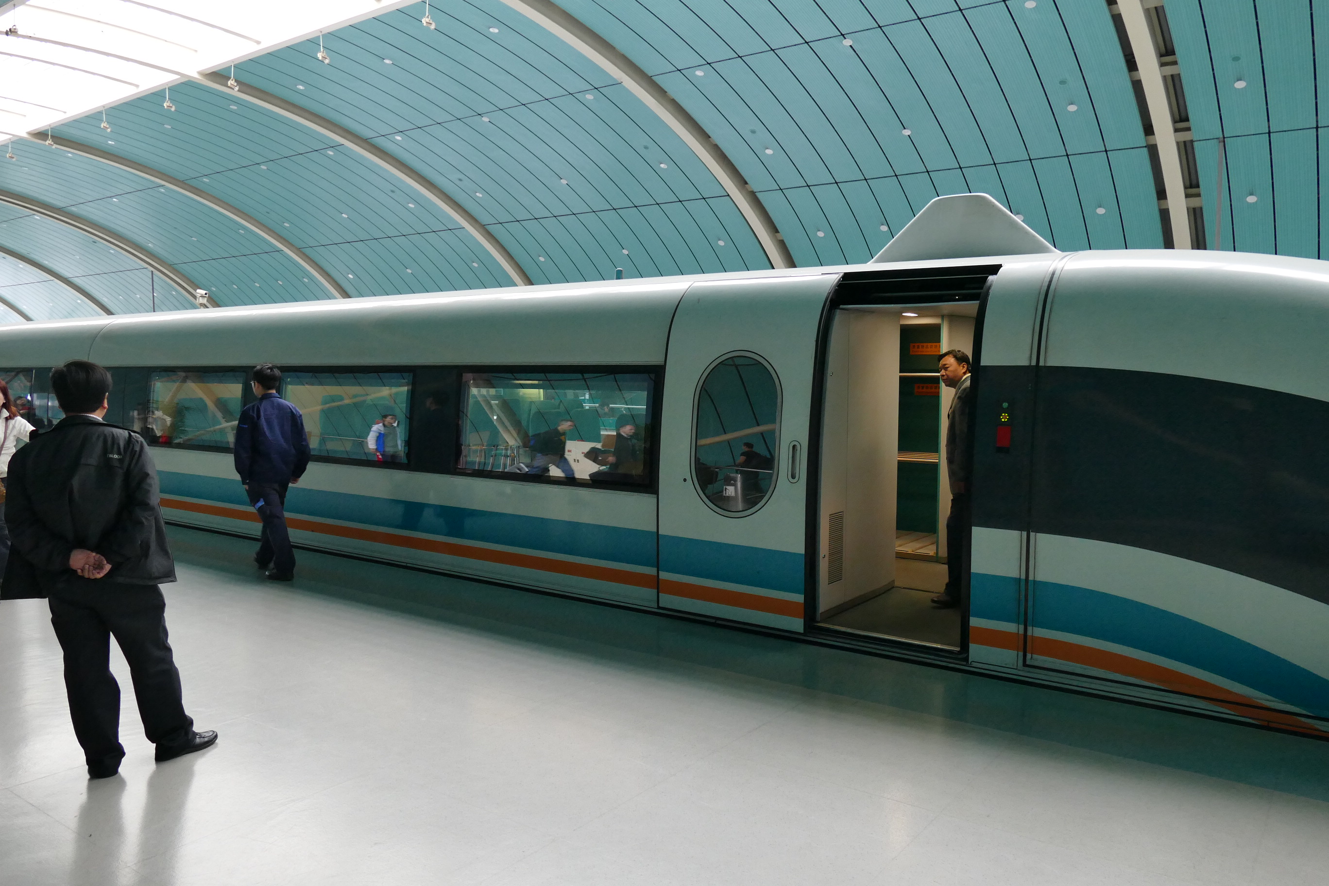 Maglev train at Longyang Road Station - Shanghai, China, 15.11.2014